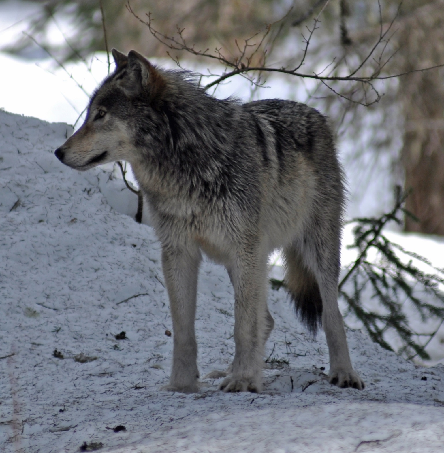 Wolf seen by the snow survey crew on the side of the Going-to-the-Sun Road